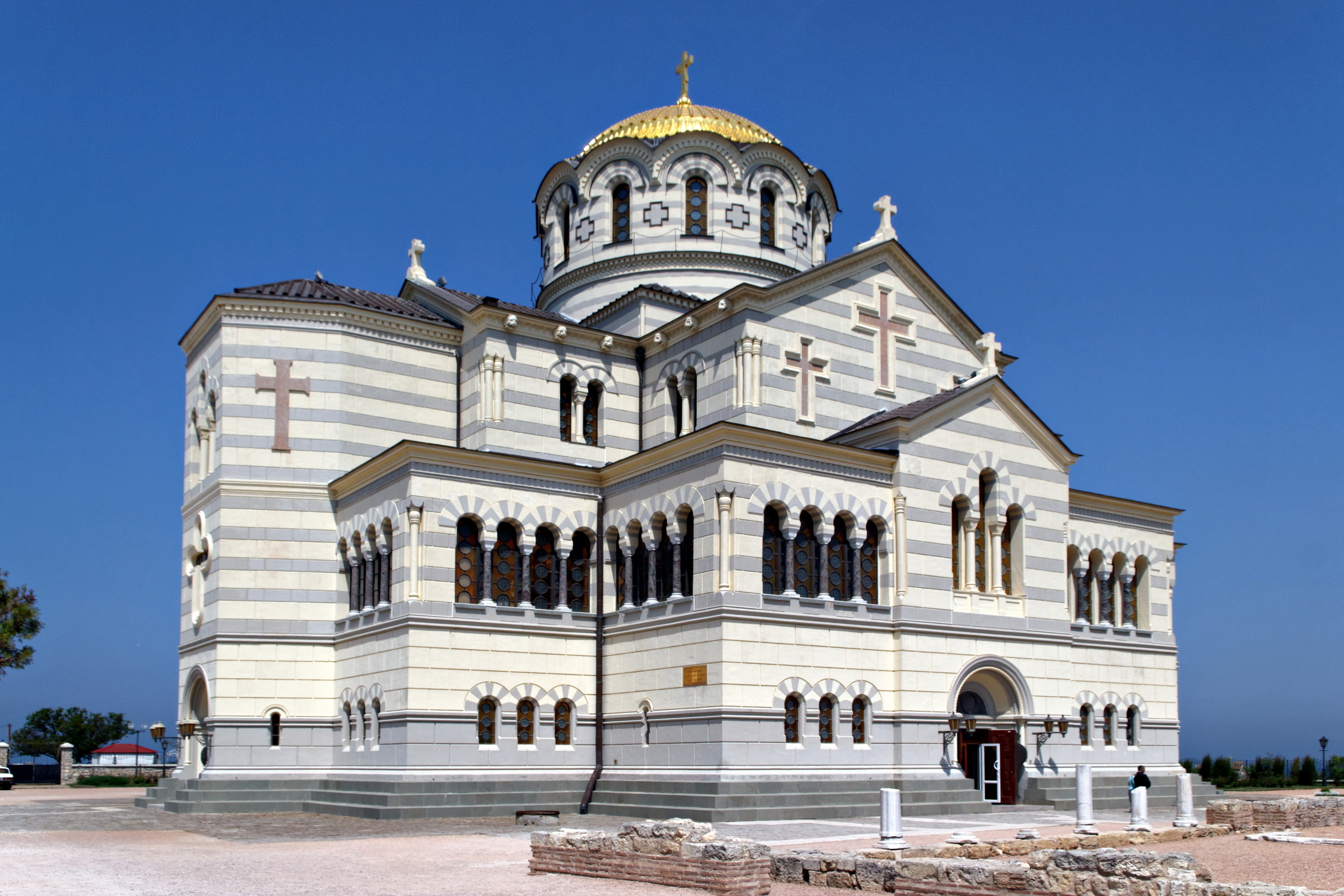 Sevastopol. Chersonesus. Saint Vladimir Cathedral